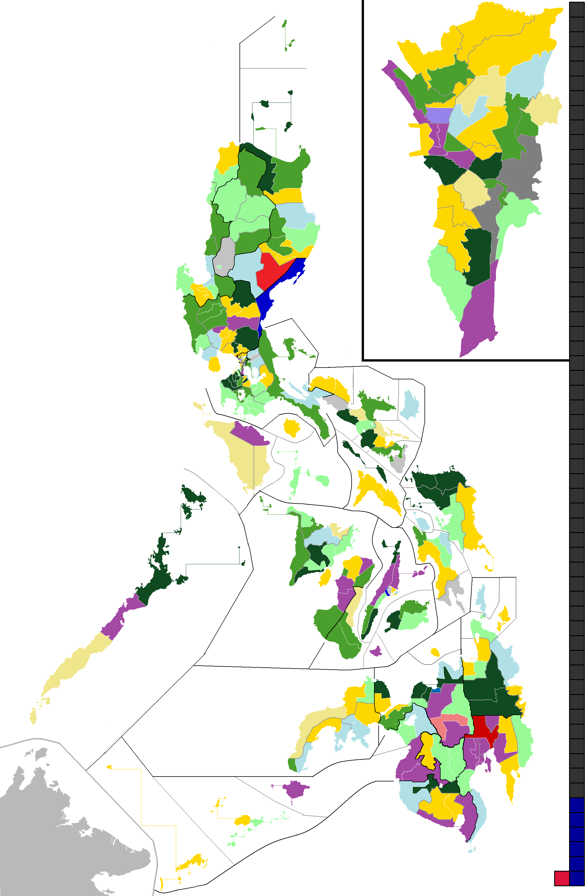 Parties that hold the seats in each congressional district and party-list in the w:18th Congress of the Philippines in the House of Representatives.